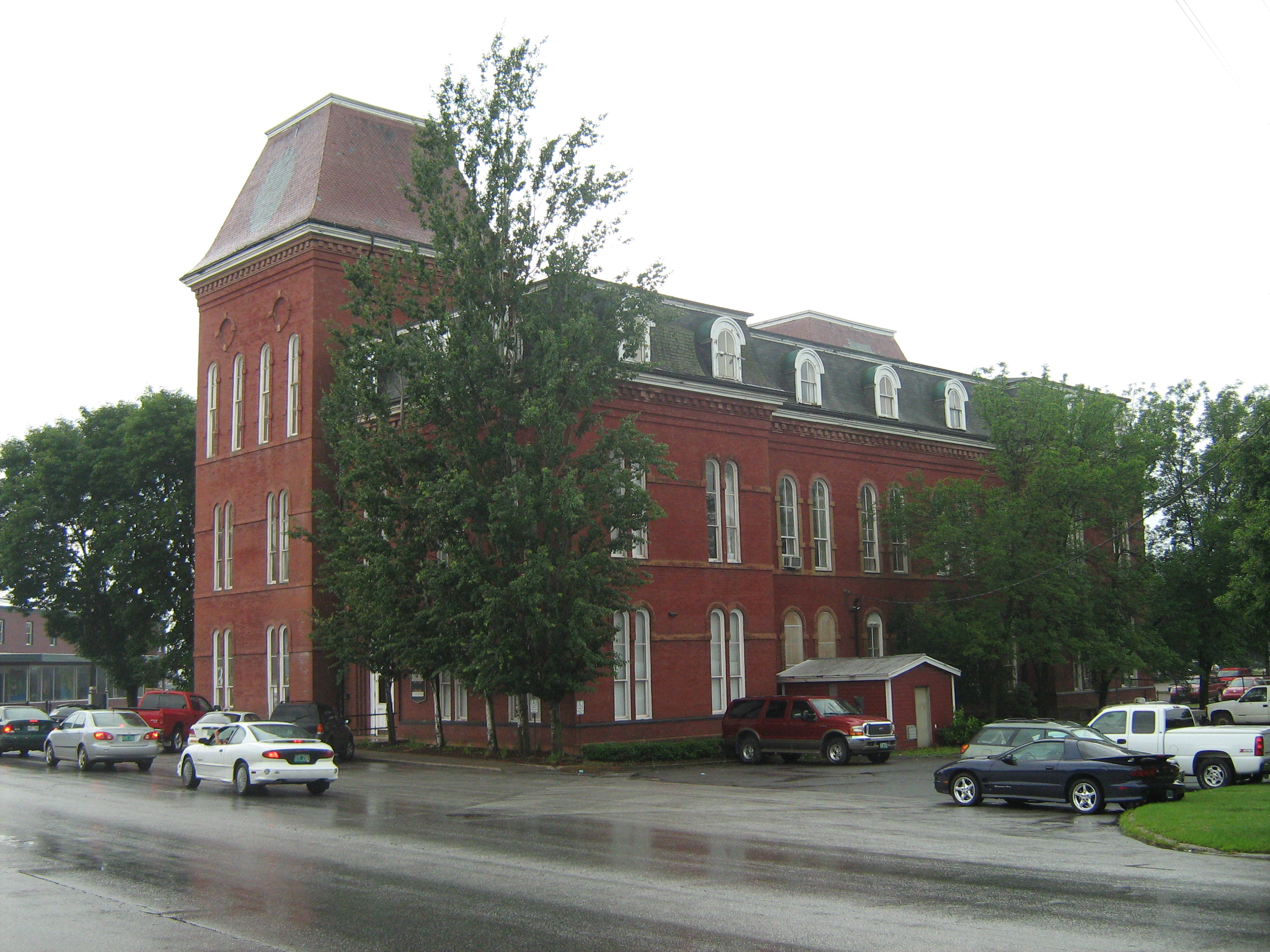 Former headquarters of the Central Vermont Railway in July 2008. First floor had an attorney, a photographer's studio and a beauty salon, among others. Second and third floors were HQ of New England Central Railroad.